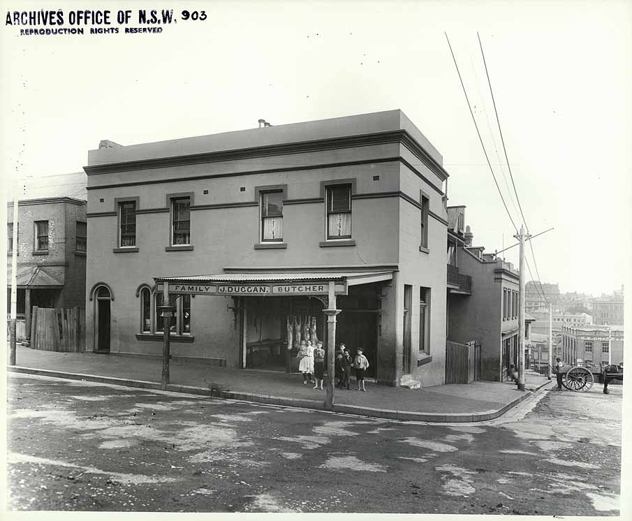 J. Duggan, Butcher, 178 Cumberland Street, The Rocks Dated: October 1901 Digital ID: 4481_a026_000101 Rights: We'd love to hear from you if you use our photos. Many other photos in our collection are available to view and browse on our website using Photo Investigator.